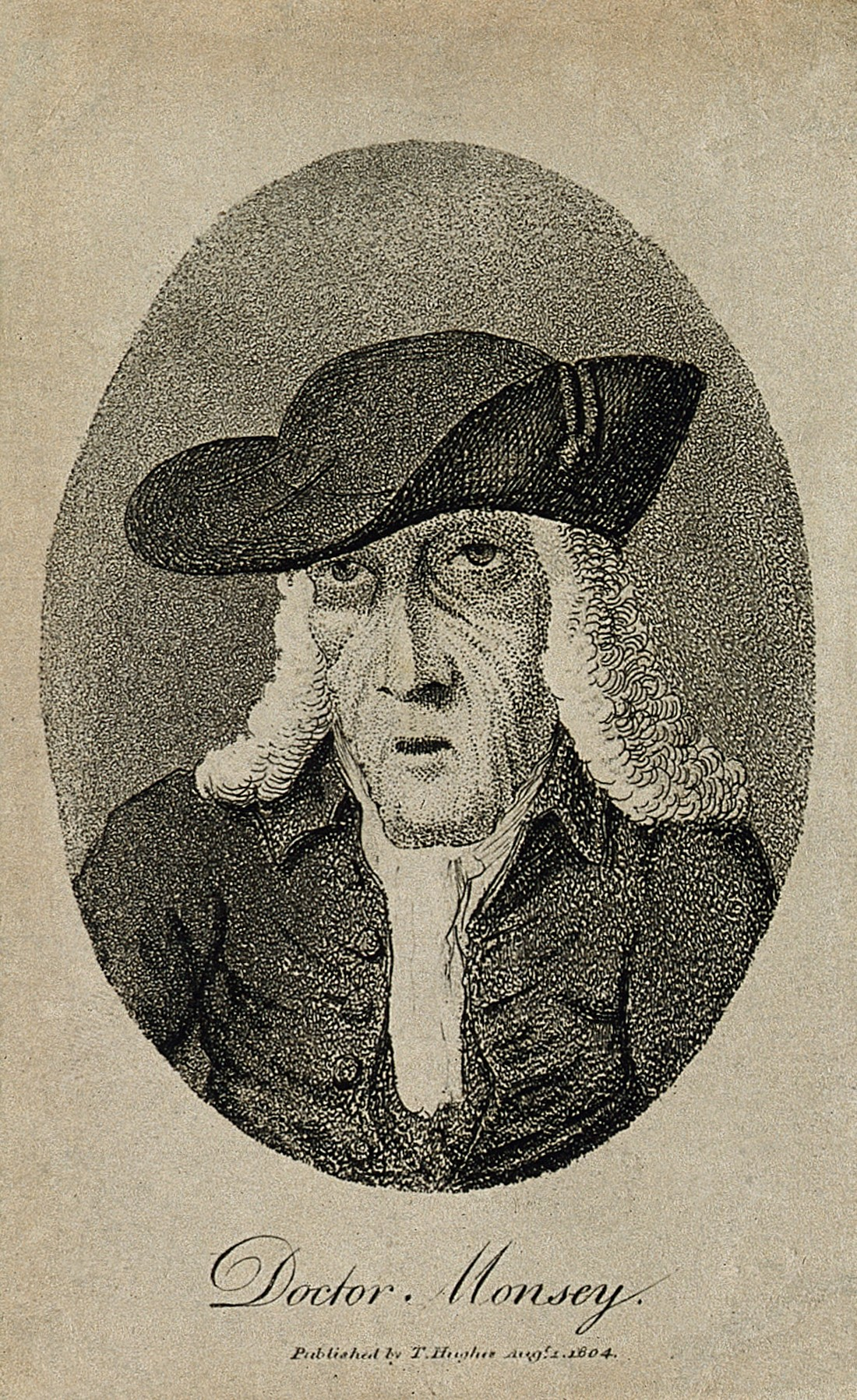 Messenger Monsey. Stipple engraving, 1804, after T. Forster. Iconographic Collections Keywords: Messenger Monsey